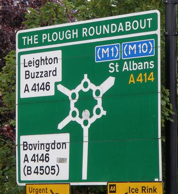 Road sign for the magic roundabout in Hemel Hempstead, Hertfordshire